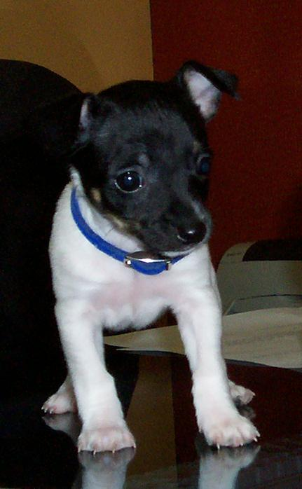 Five Week Old Rat Terrier - Bo Jangles Taken by Jeena Verdevlotti